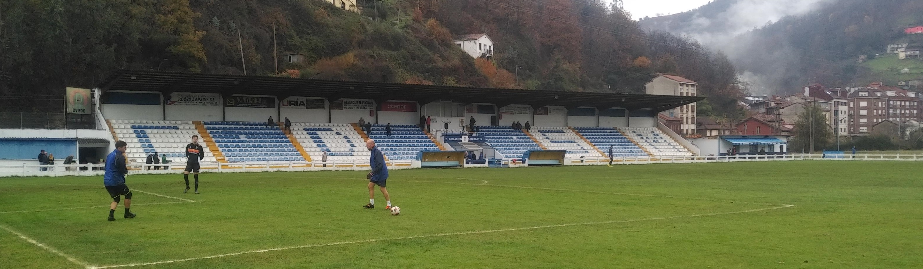 Estadio El Florán, located in San Martín del Rey Aurelio, Asturias, Spain